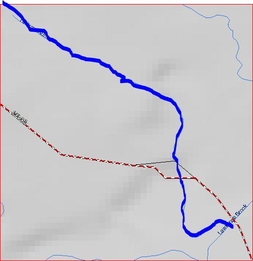 Map of Terhune Run